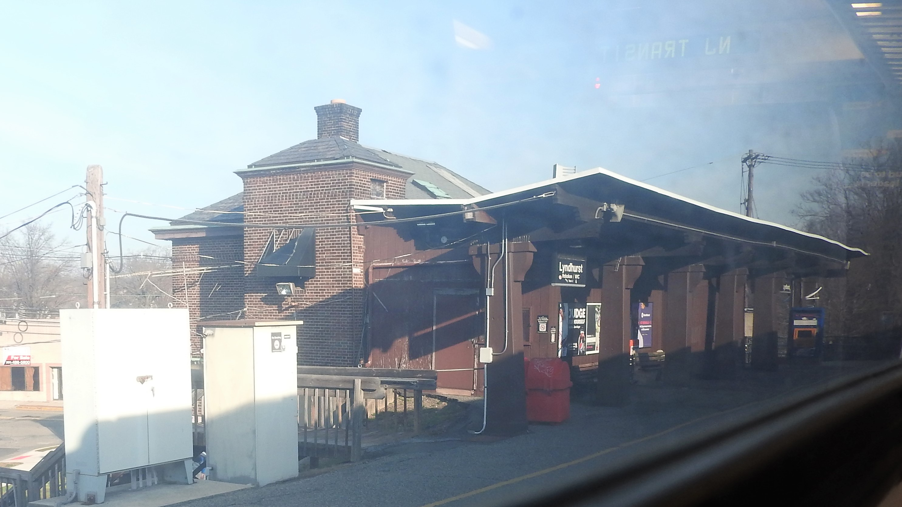 Looking northwest from a northbound train on a sunny morning.